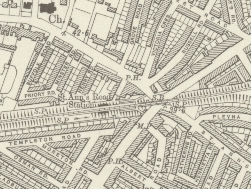 St Ann's Road station in north London on a 1920 Ordnance Survey map.